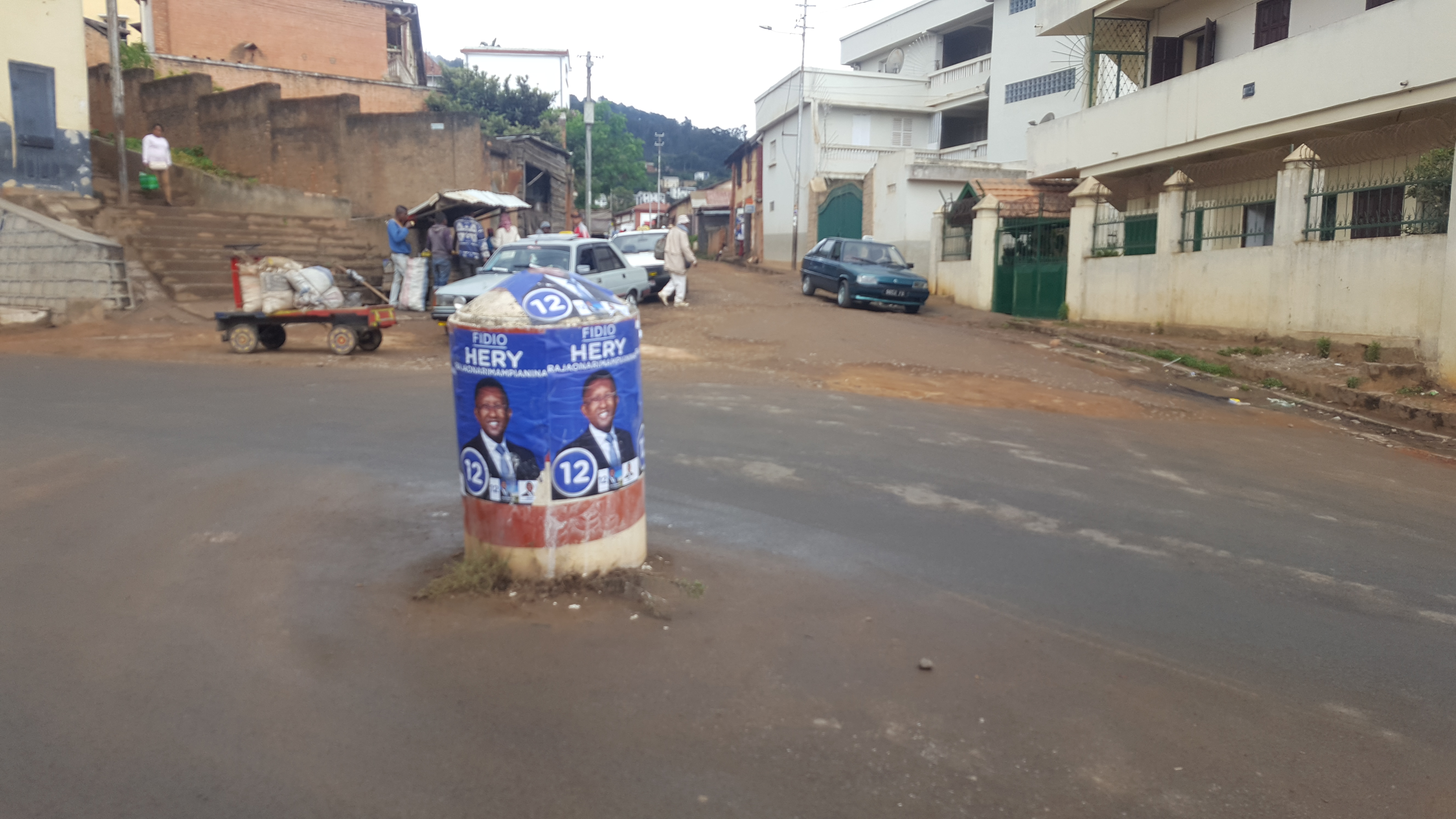 Campaigners for Hery Rajaonarimampianina in Madagascar, October 2018